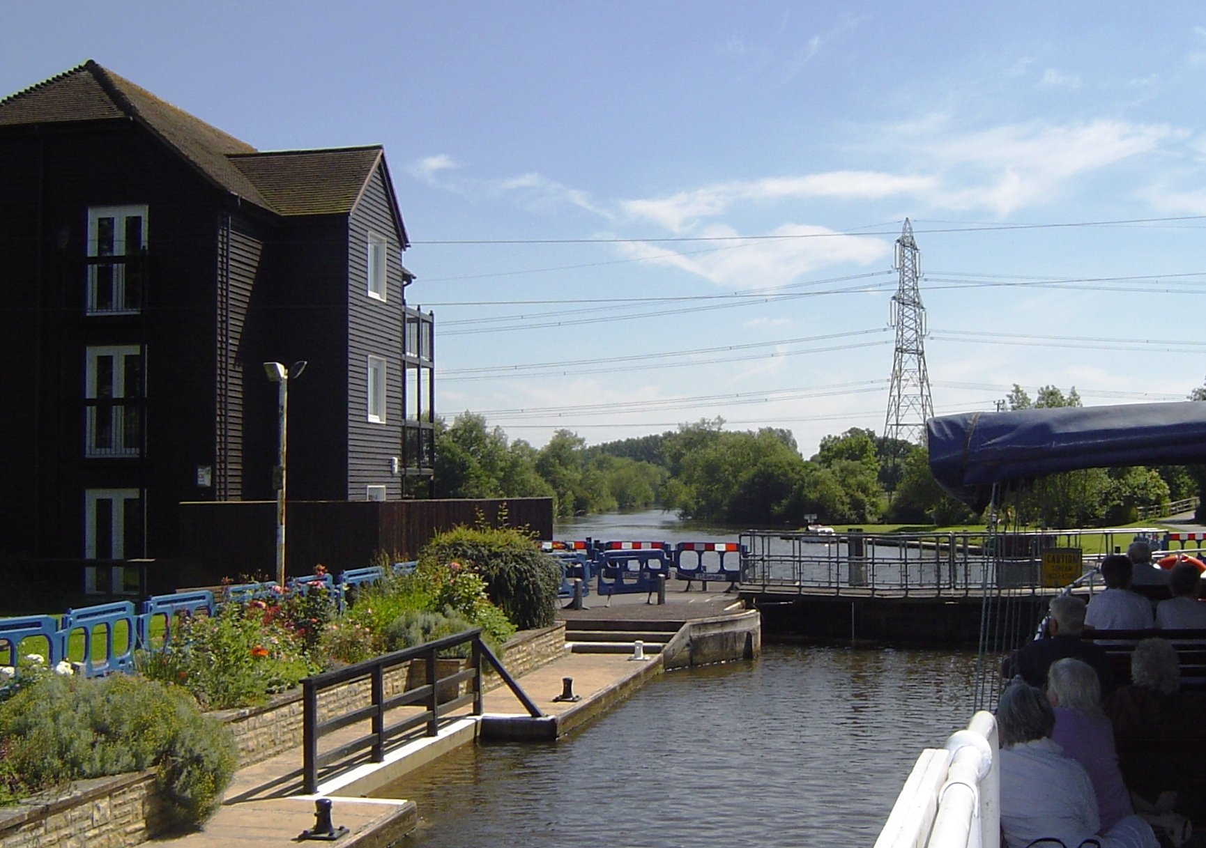 Cruise boat at Sandford Lock River Thames